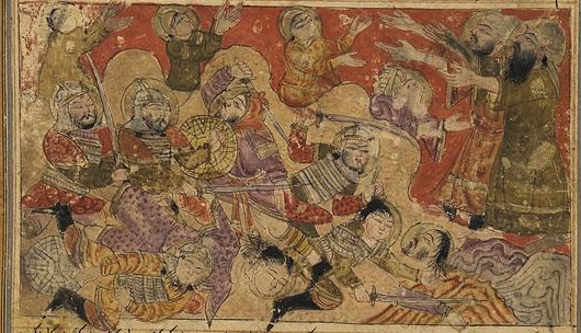 Folio from a Tarikhnama (Book of history) by Balami